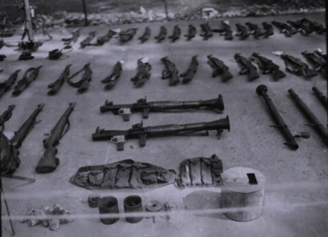 A RPG7 Chinese Rocket Launcher and other weapons captured by the 2nd Battalion, Royal Australian Regiment, from 25 Jan to 28 February 68 during Operation Coburg displayed at Nui Dat.